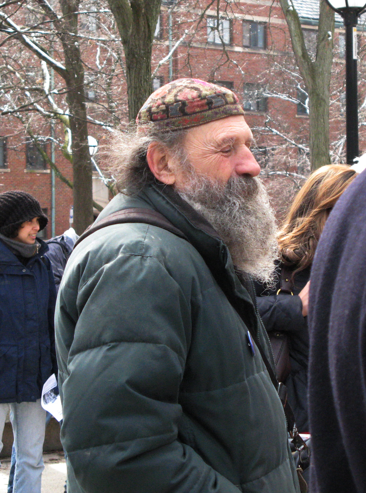 Politicial activist Robert Alan Haber